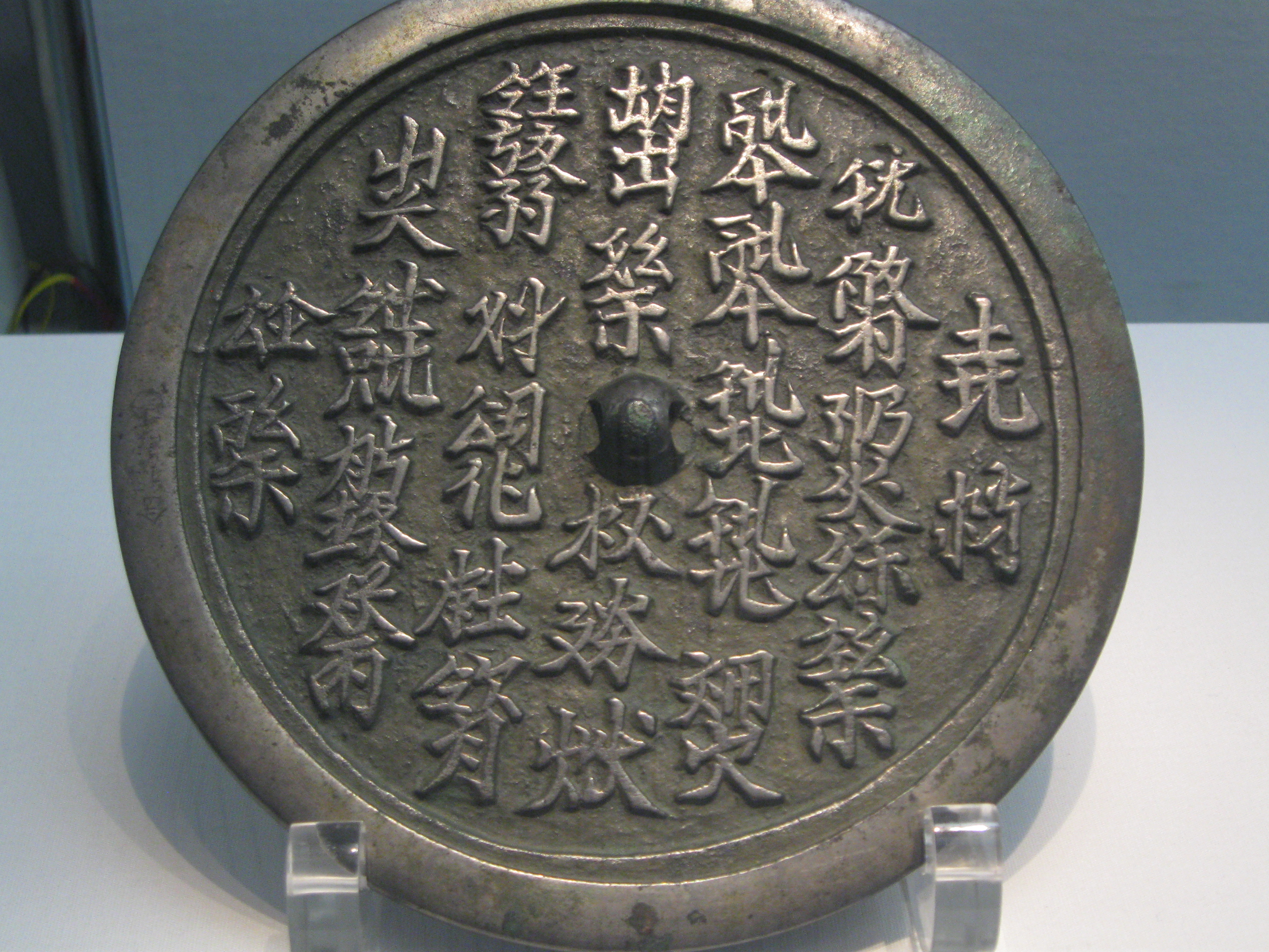 Khitan characters on a bronze mirror. Khitan was the official language of the Liao Dynasty (907-1125) . National Museum, Seoul, Korea.